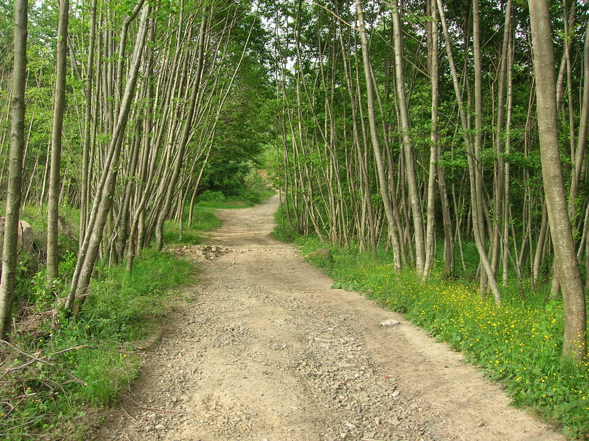 Author: Trond Ramsvik Mountain path in Parco Nazionale del Cilento